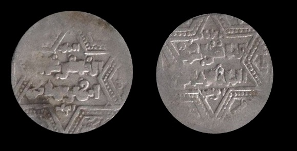 Kingdom of Jerusalem. Dirham, Silver, 2,6 g. Struck at Acre. Struck between 1216-1241 Inscriptions: OBVERSE: al-Malik al-Zahir Ghazi ibn Yusuf ibn Ayyub duriba bi-Halab sana ??? (year unclear) REVERSE: al-Iman al-Nasir Ahmad al malik al-'Adil Abu Bakr la ilah illa Allah Muhammad rasul Allah Collection Rodrigo de Oliveira Leite.